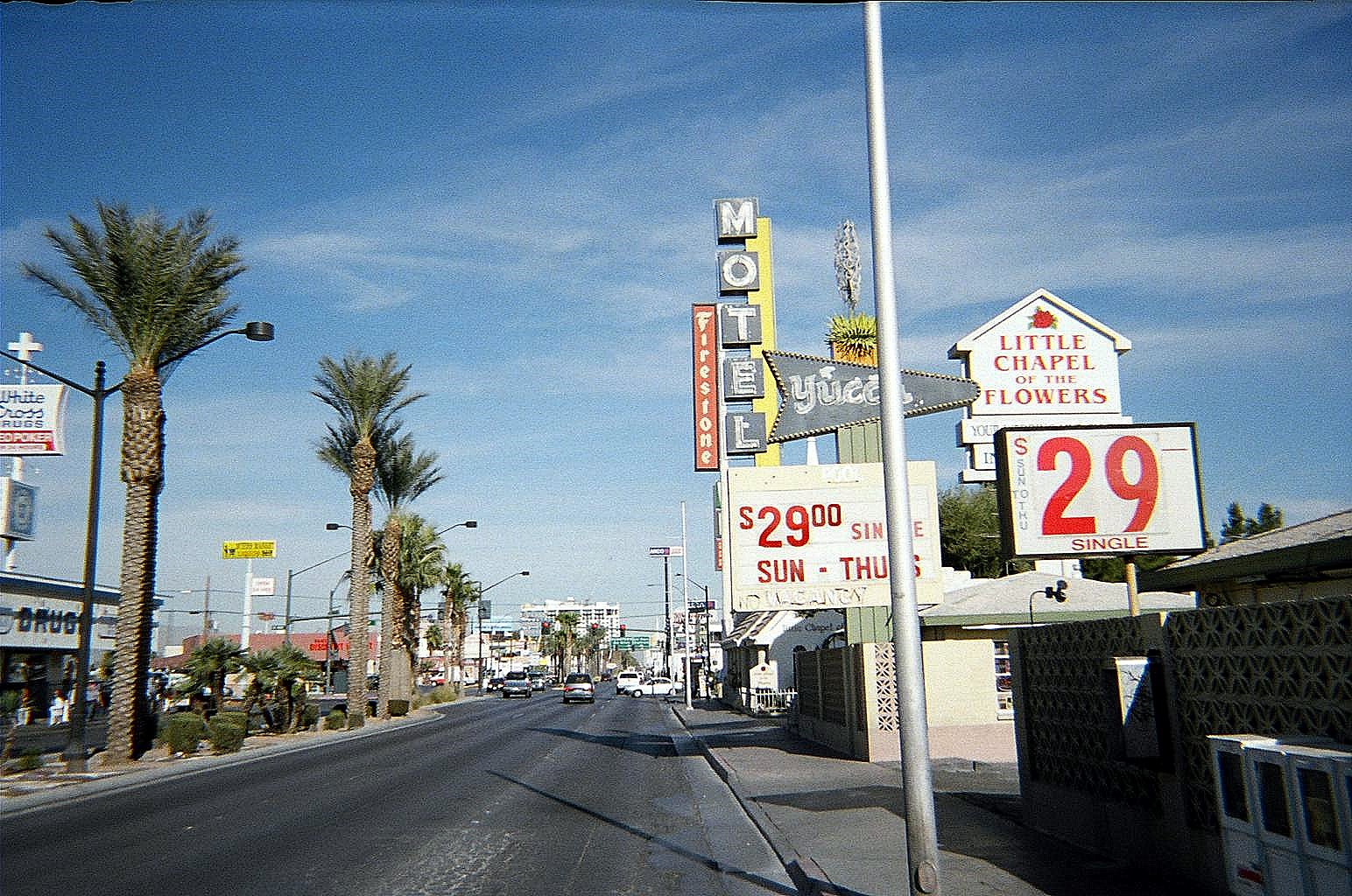 Looking to downtown LV on LV Blvd.